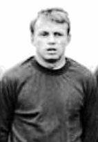 Title: DDR-Fußball-Oberligamannschaften Factual corrections and alternative descriptions are encouraged separately from the original description. Additionally errors can be reported at this page to inform the Bundesarchiv. Original historic description: Lothar Hahn, FC Hansa Rostock, 1969